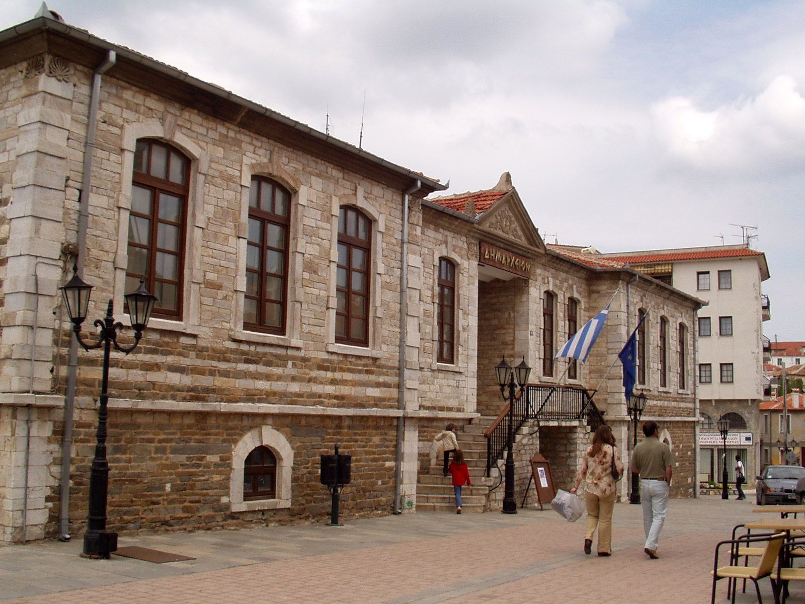 Town Hall of Polygyros, Prefecture of Chalkidiki, Greece.